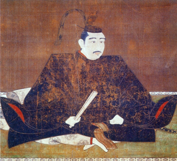 池田輝政、安土桃山時代から江戸時代にかけての戦国武将、大名。現代まで残る姫路城を改修したことで知られている。Ikeda Terumasa (January 31, 1565-March 16, 1613) was a Japanese daimyo of the early Edo period.